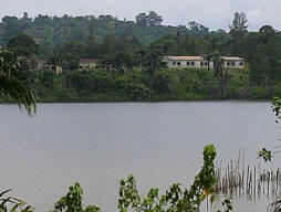 Agulu Lake, Aniocha, Anambra